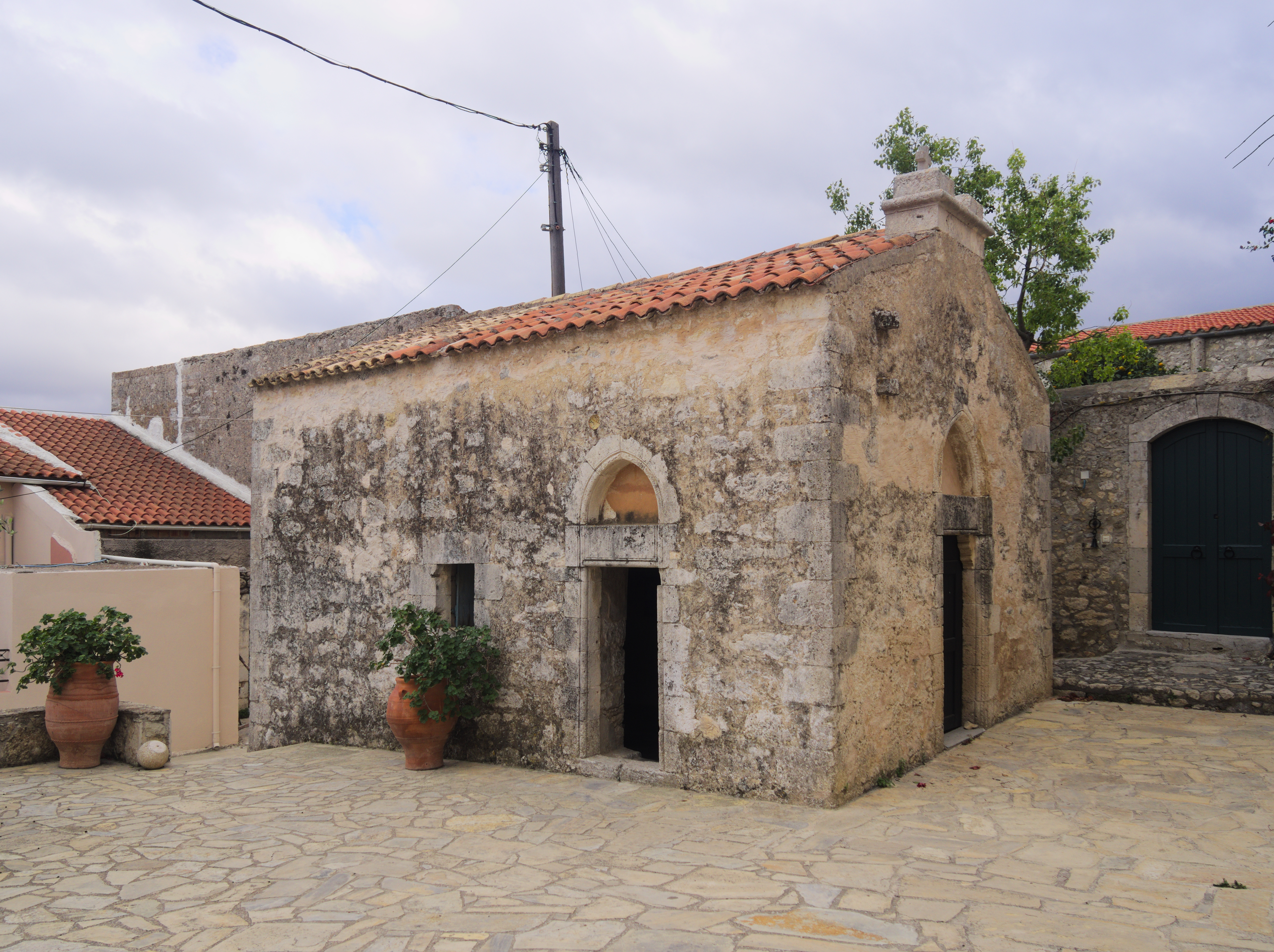 The church of Theotokos in Episkopi, Crete.